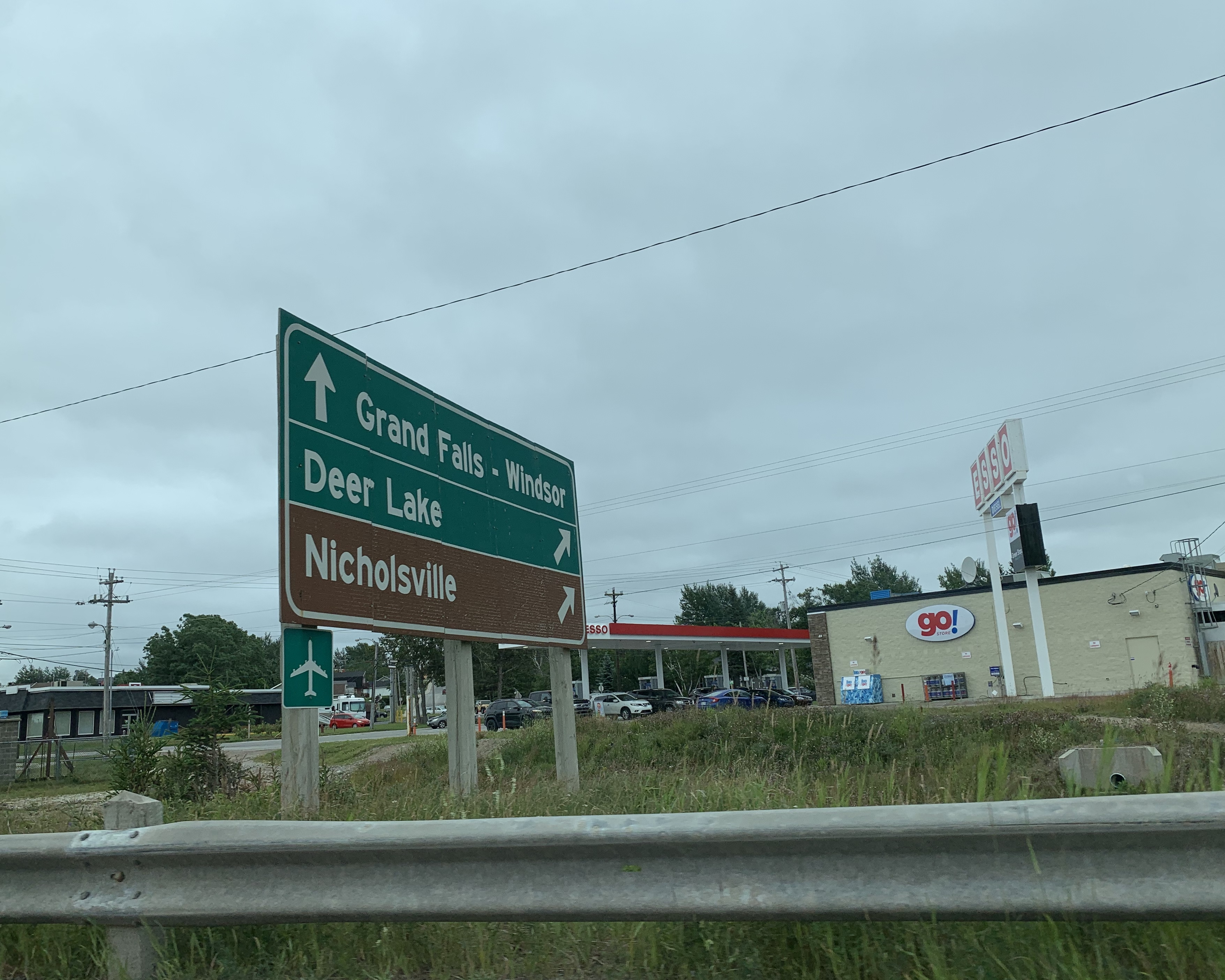 Deer Lake, Newfoundland and Labrador, as seen from the Trans-Canada Highway.